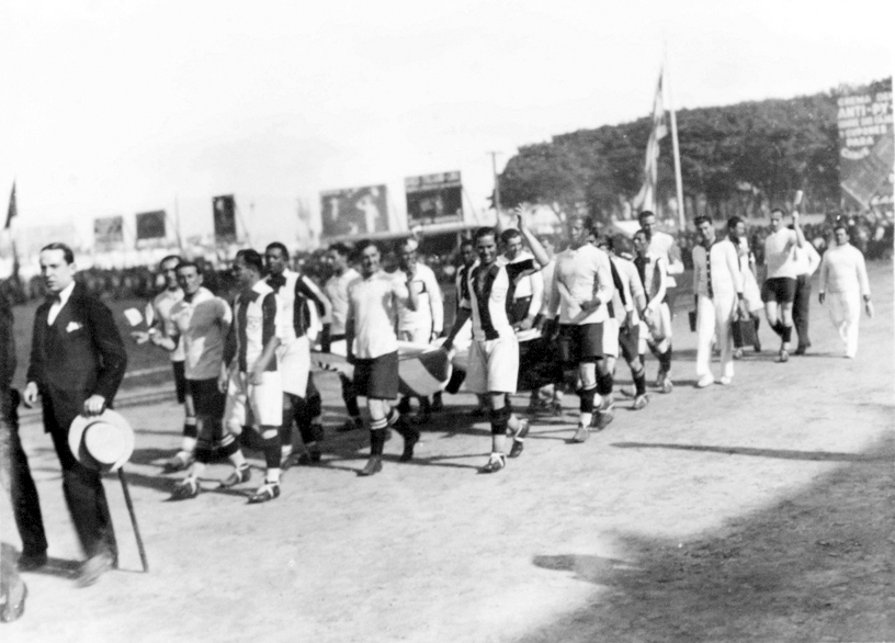 Peru and Uruguay squads before their match at the 1927 Campeonato Sudamericano